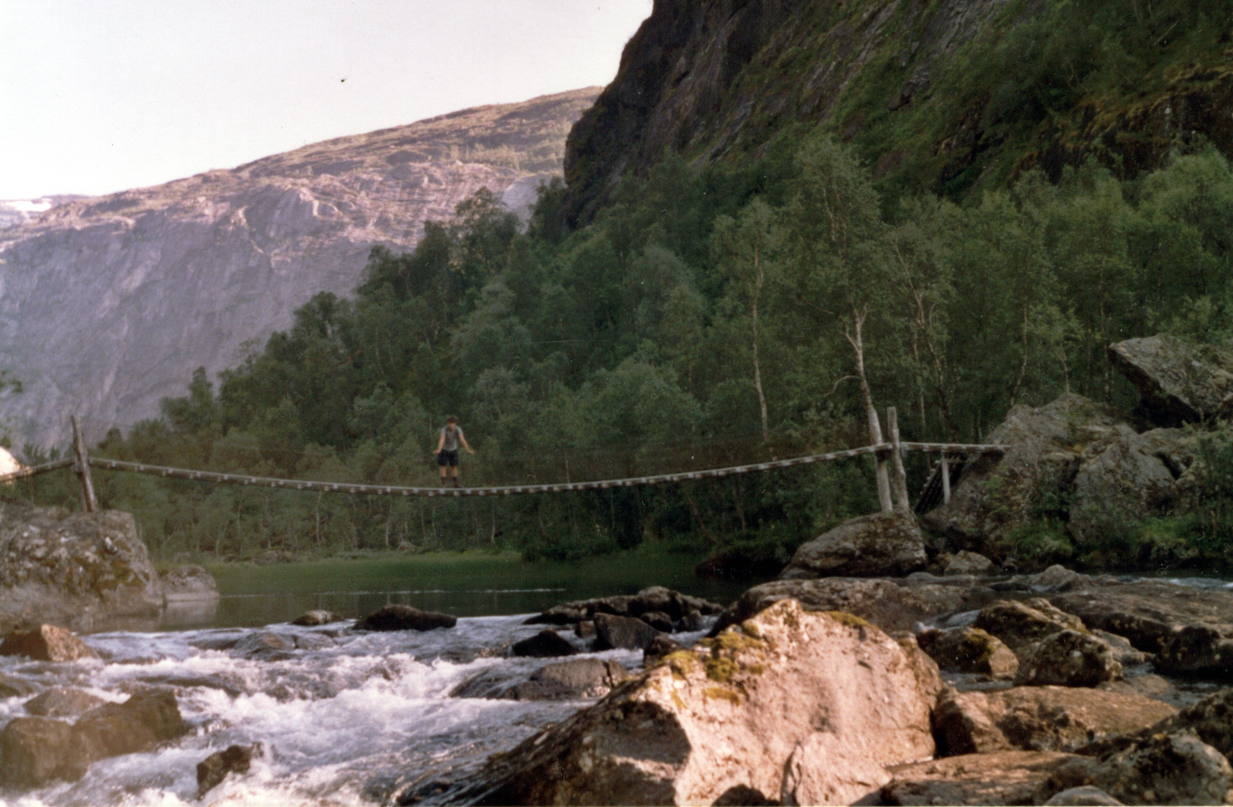 A very reliable bridge in Rago